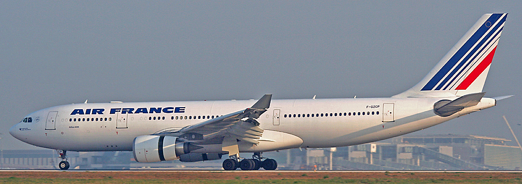 Air France A330-203 F-GZCP lands at Paris-Charles de Gaulle Airport. – The aircraft was destroyed in Air France Flight 447.